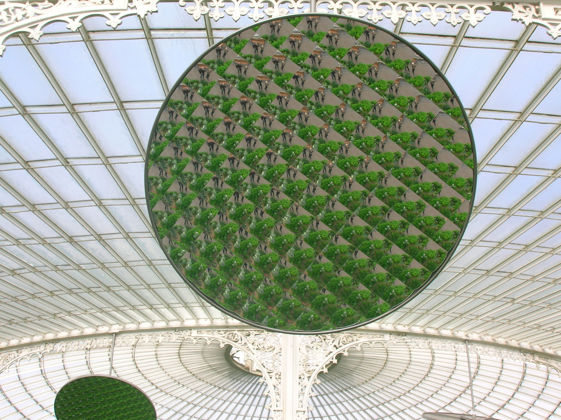 Kibble Palace, Glasgow Botanic Gardens, Scotland